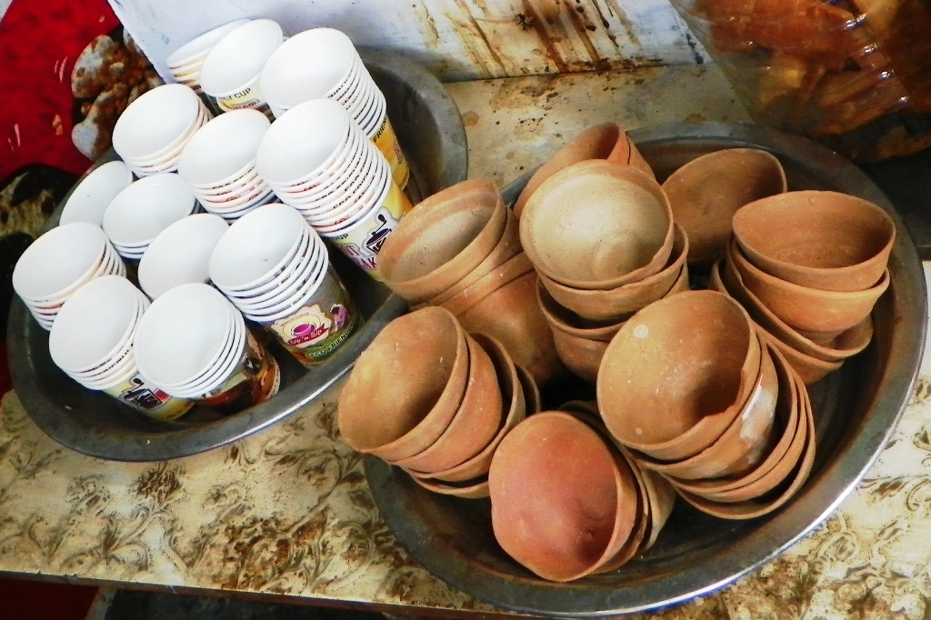 clay or plastic